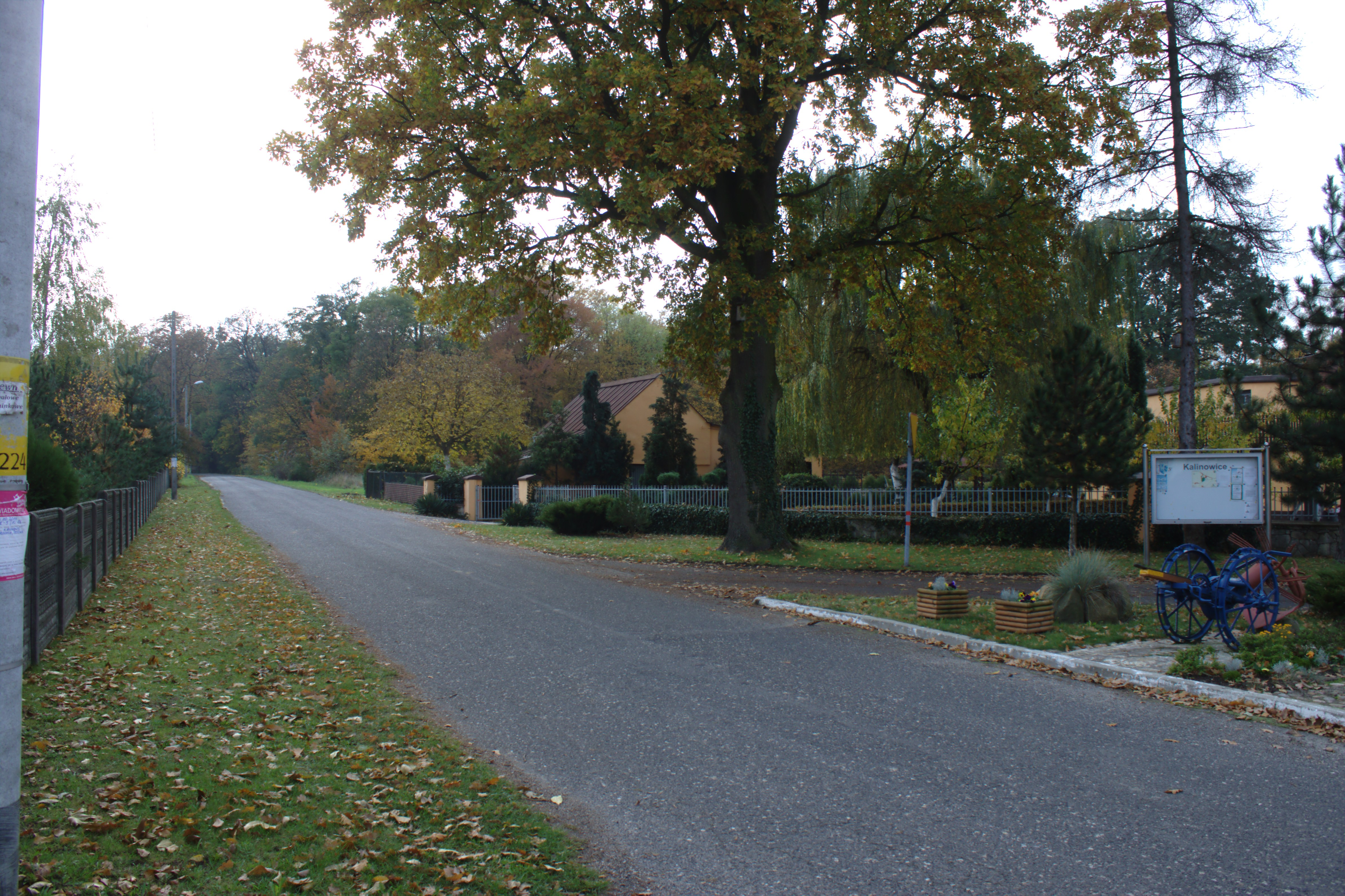 A tree on a common in Kalinowice, Opole Voivodeship, PL